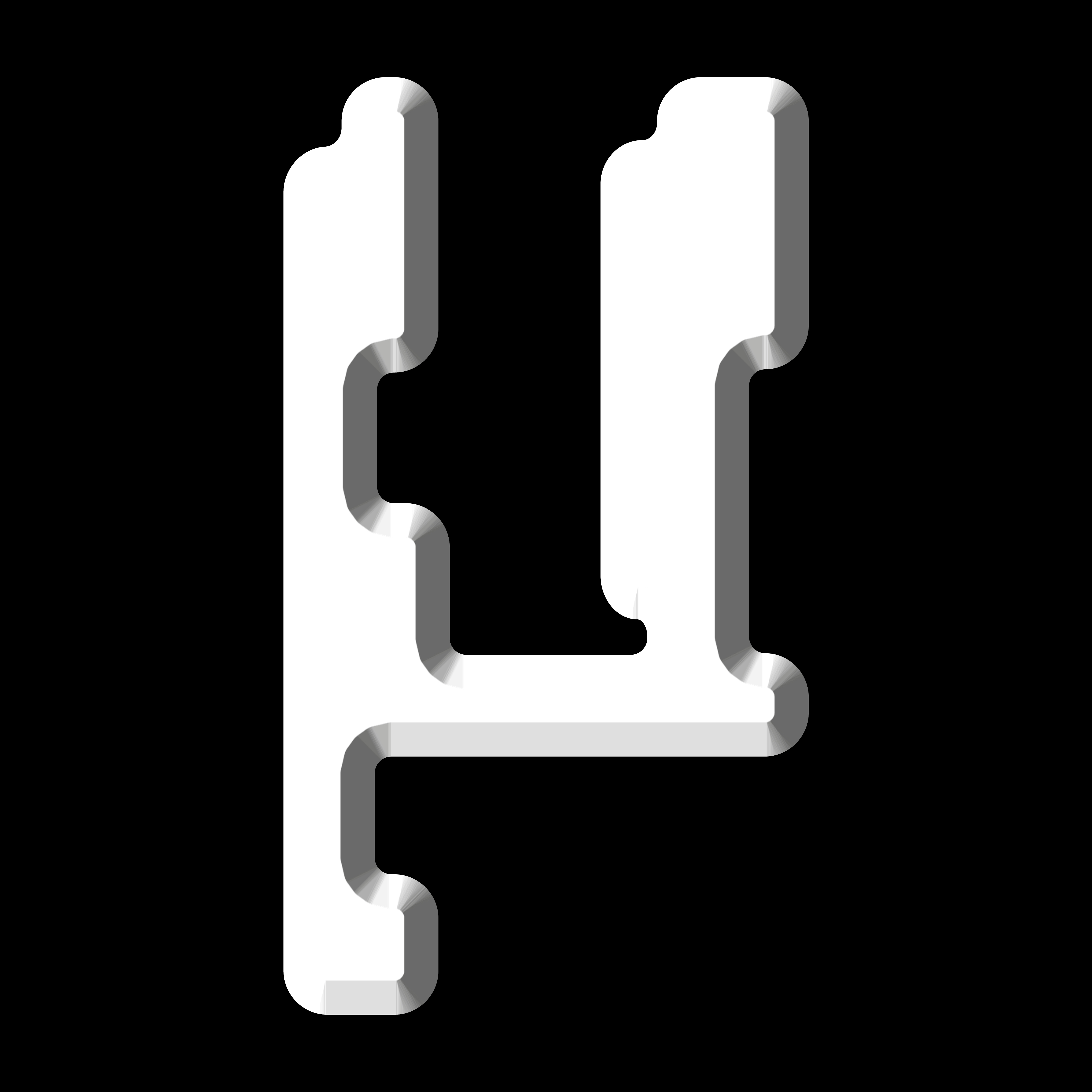 Planet Mu Logo